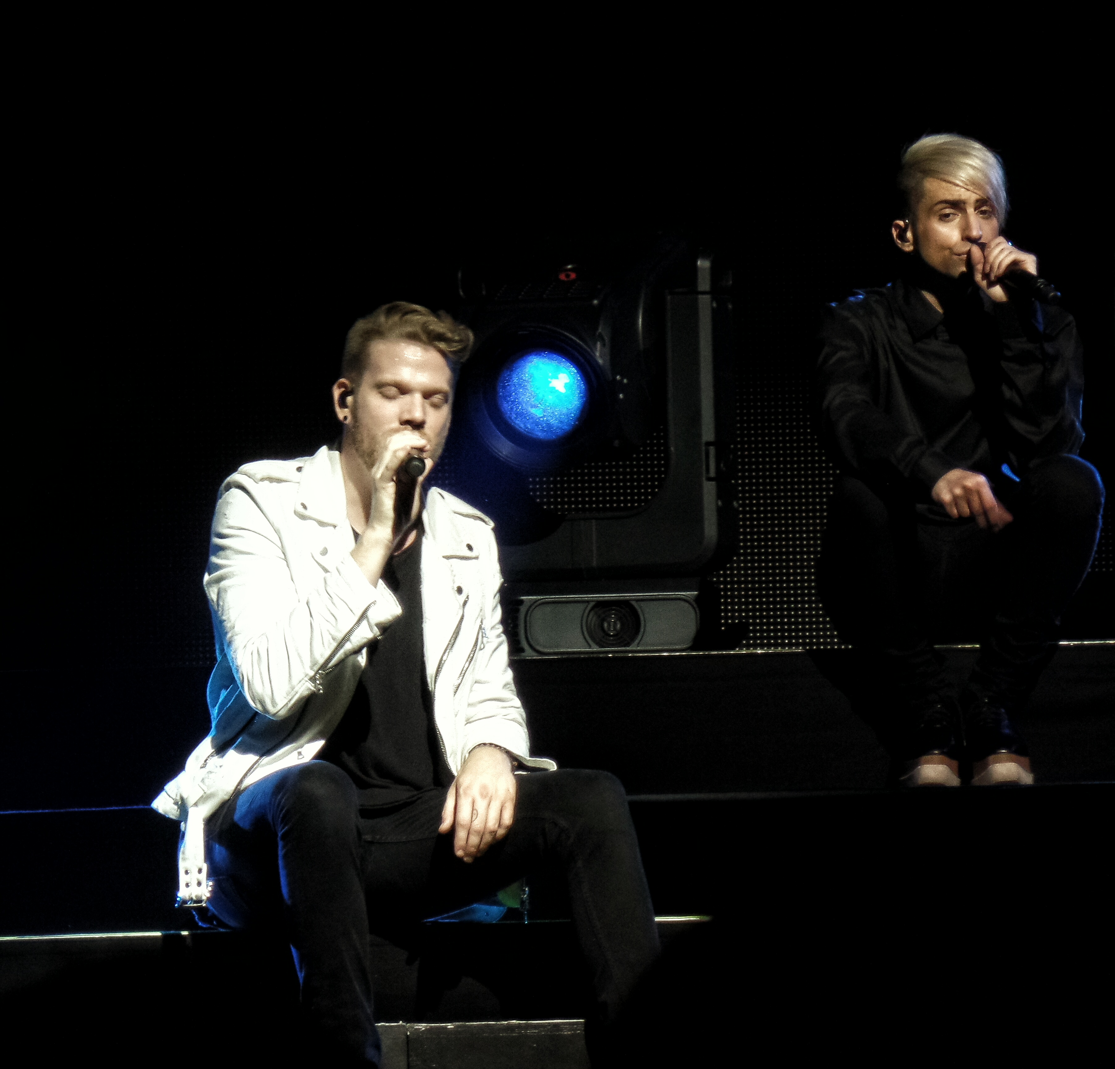 Scott Hoying and Mitch Grassi performing as part of Pentatonix at the Palladium Cologne